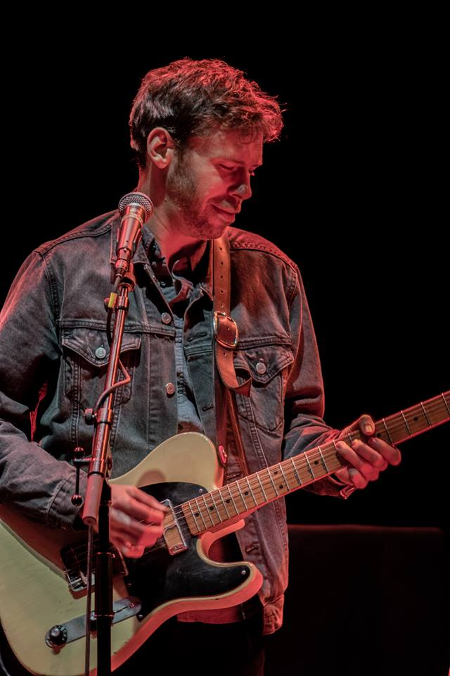 Scott Metzger onstage at The Capitol Theater in Port Chester, NY (pic by Rob Schmidt)